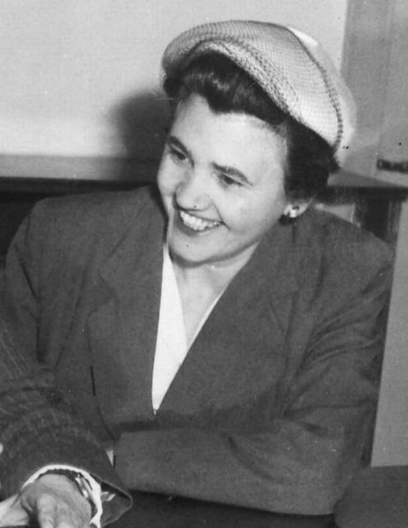 Giora Yoseftal with his wife Senetta Yoseftal at official activitie event.